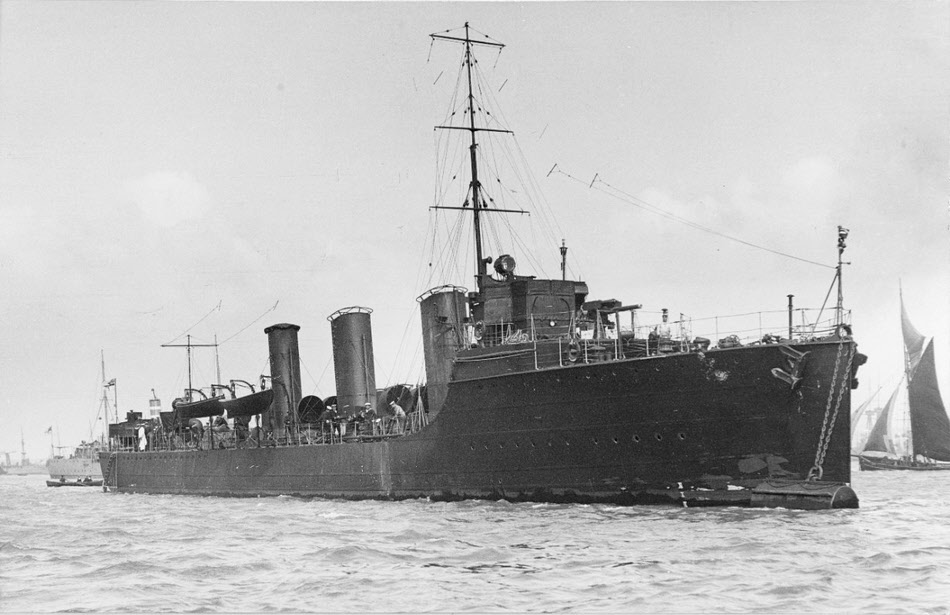 the HMS Foxhound